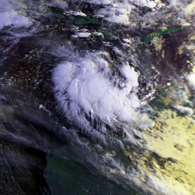 Rosita on April 16 at 2234 UTC. This image was produced from data from NOAA-15, provided by NOAA. The storm's maximum sustained winds were only 30 knots (10-minute average) at the time.